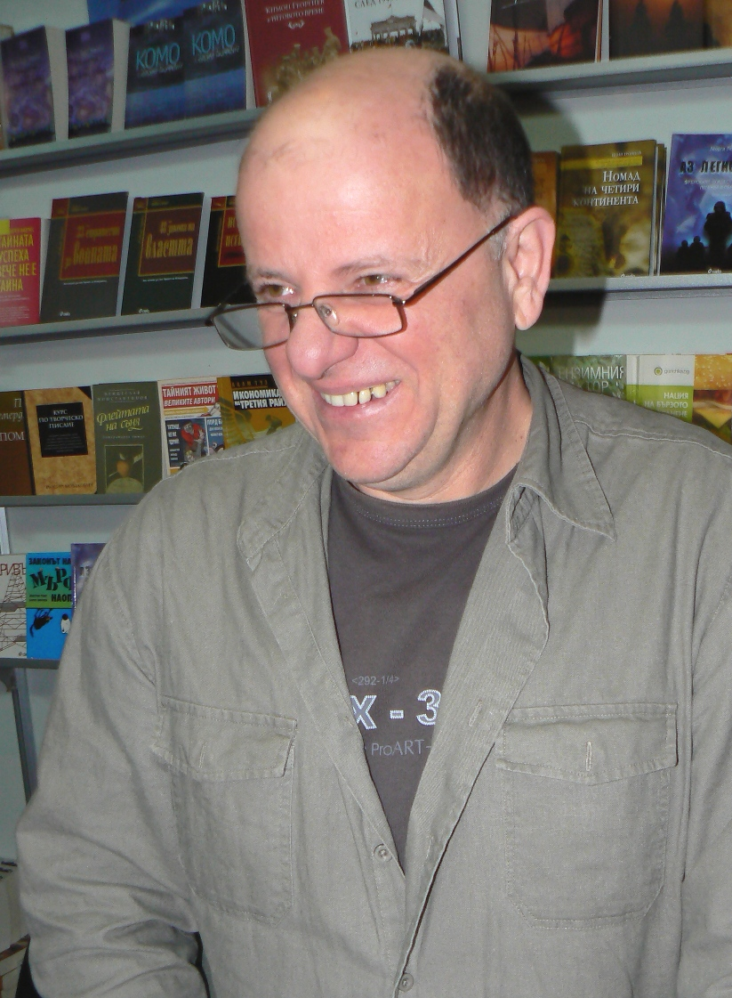 Bulgarian writer Mihail Veshim